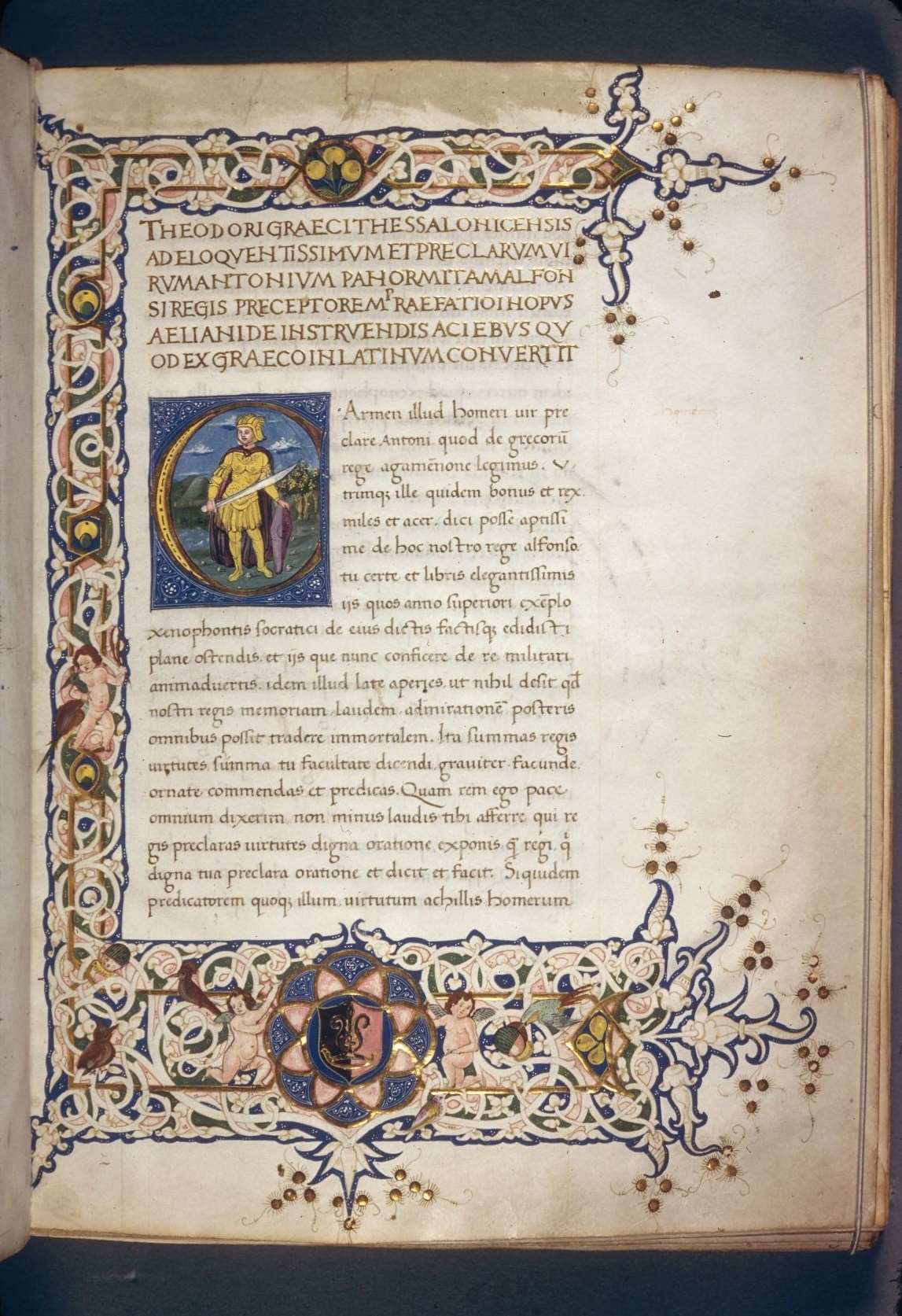 In hoc codice continentur Helianus De instruendis aciebus et Onosander De optimo imperatore (manuscript), ca. 1480, by Aelianus Tacticus. MS Richardson 16, Houghton Library, Harvard University